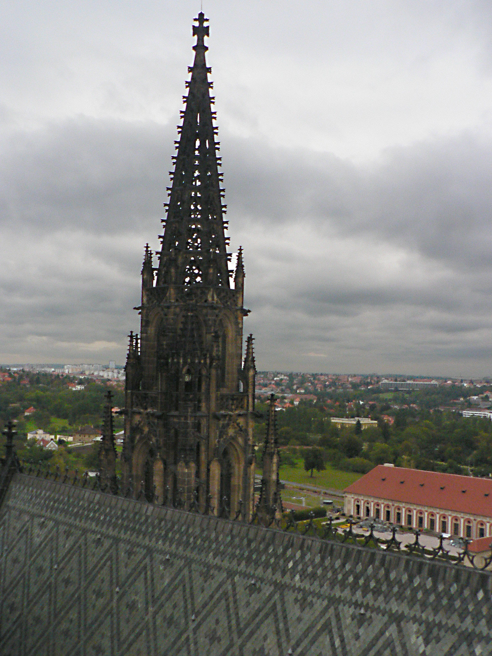 Neo-Gothic spire of St. Vitus Cathedral in Prague